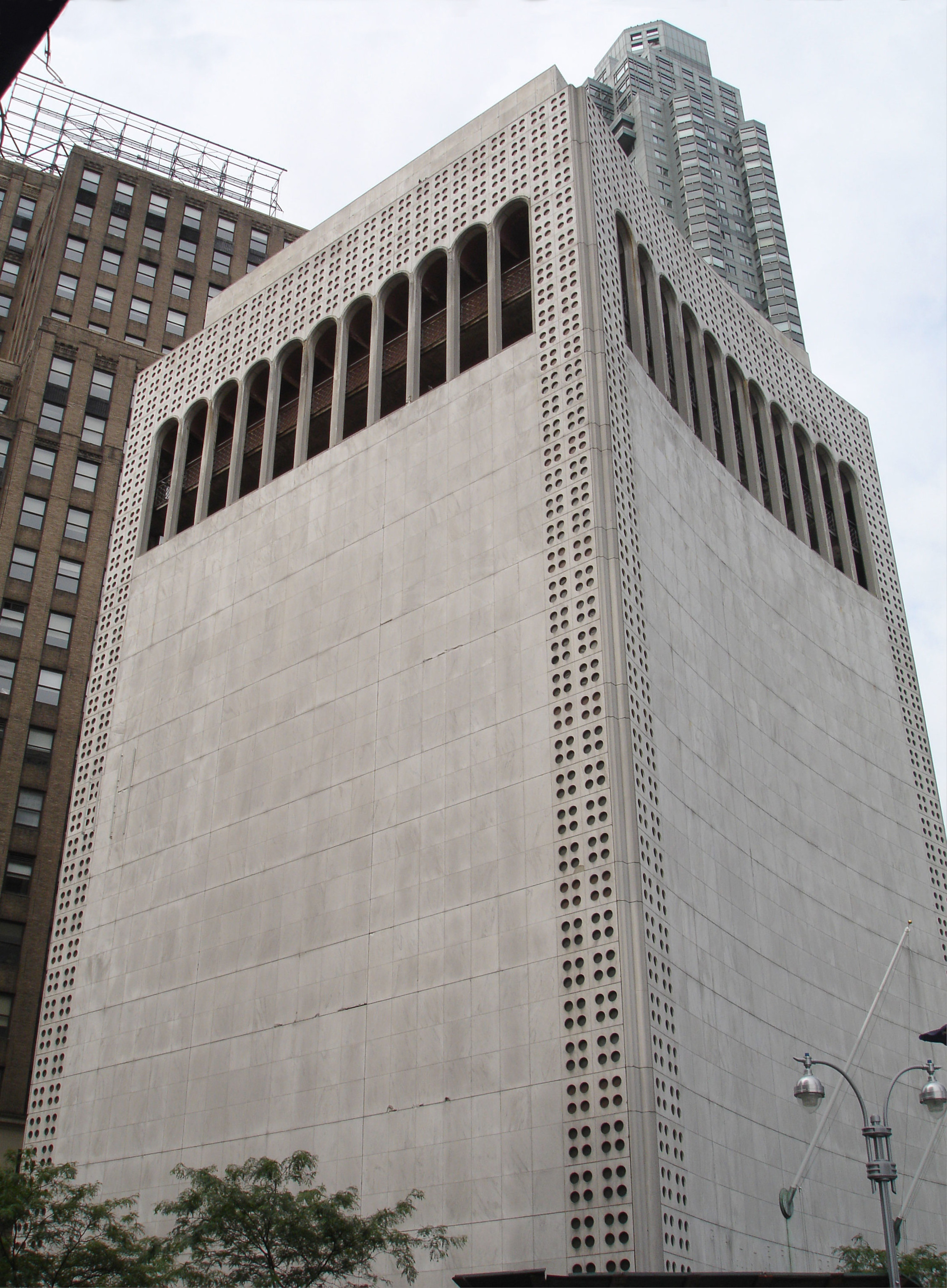 en:2 Columbus Circle in New York City. See also the later File:2ColumbusConstruction.jpg.